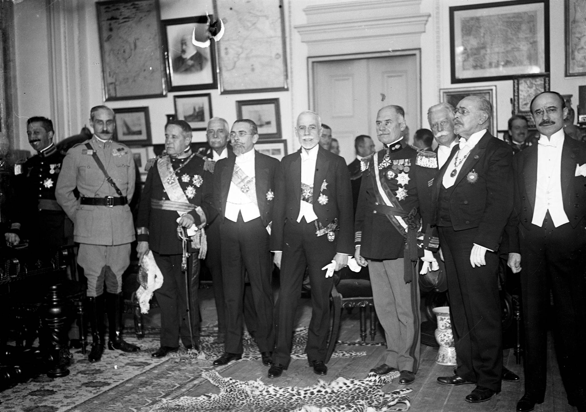 President of the Portuguese Republic Manuel Teixeira Gomes, and the Chief of Government António Maria da Silva, surrounded by General Vieira da Rocha, General Norton de Matos, Colonel Sá Cardoso, Hipácio de Brion, Dr. Augusto de Castro, Colonel Correia Barreto, and other characters, in the Lisbon Geographic Society (1923-11-03).